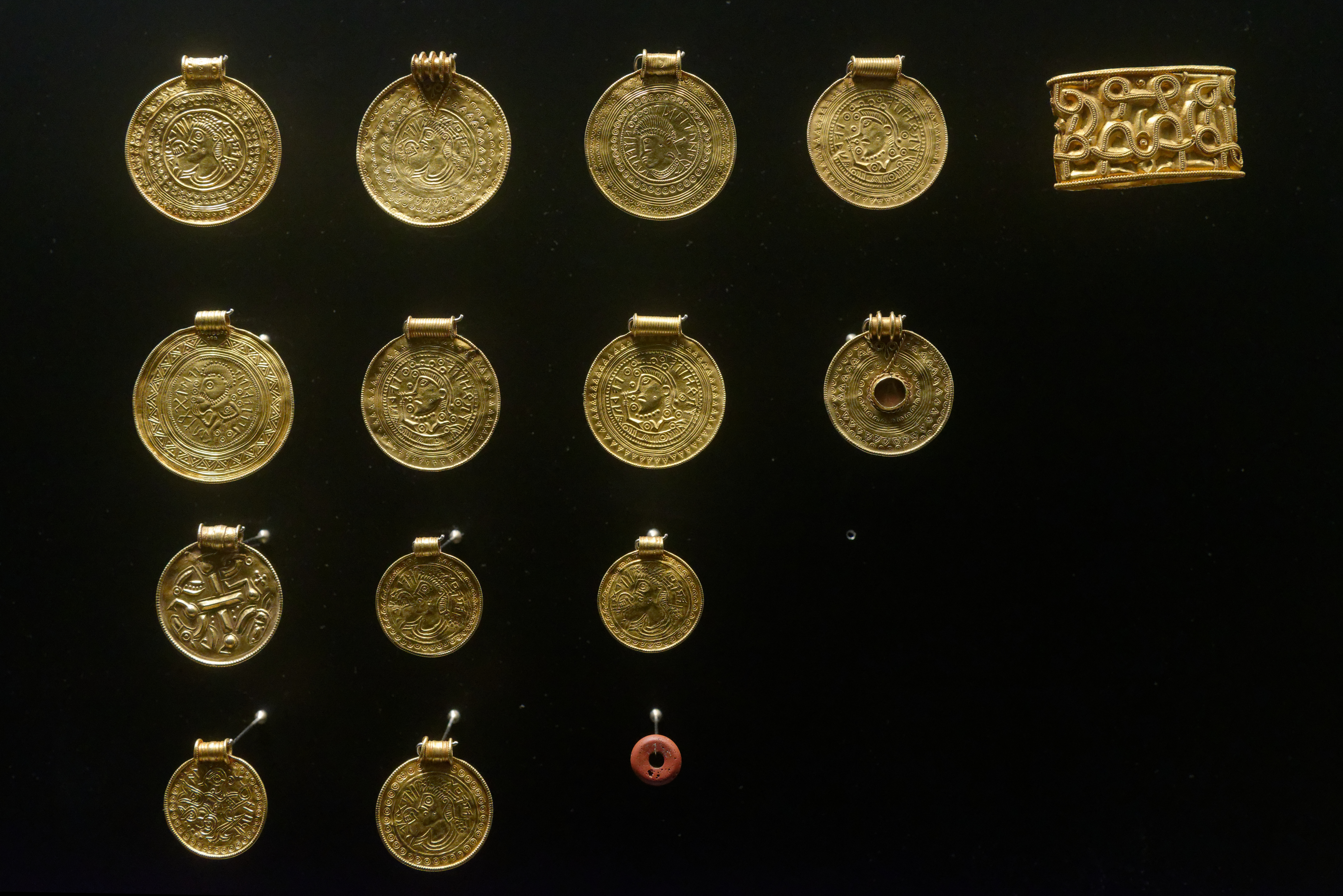 6th-century-AD gold bracteates, a pendant and a scabbard mounting from a bog at Darum, in western Jutland, Denmark.